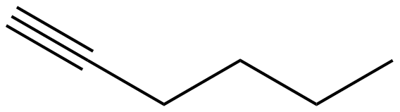 Structure of hex-1-yne.